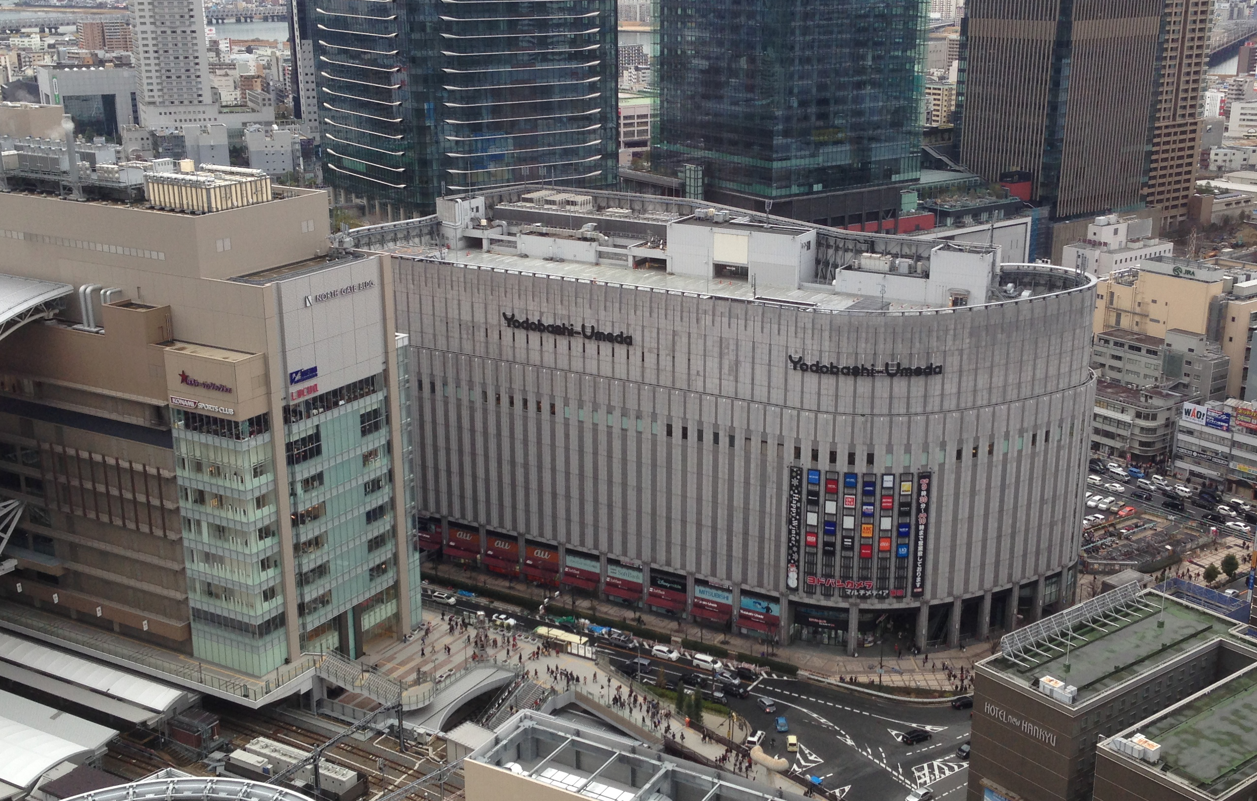 Osaka Station City North Gate Bldg, with Osaka Grand Front under construction in early 2013